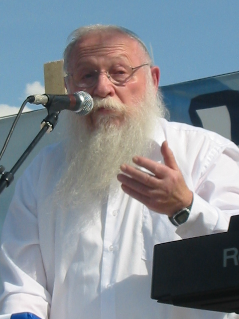 Haim Drukman at Migron rally May 2008